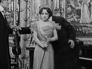 Marion Leonard in The Voice of the Violin (1909) [1].